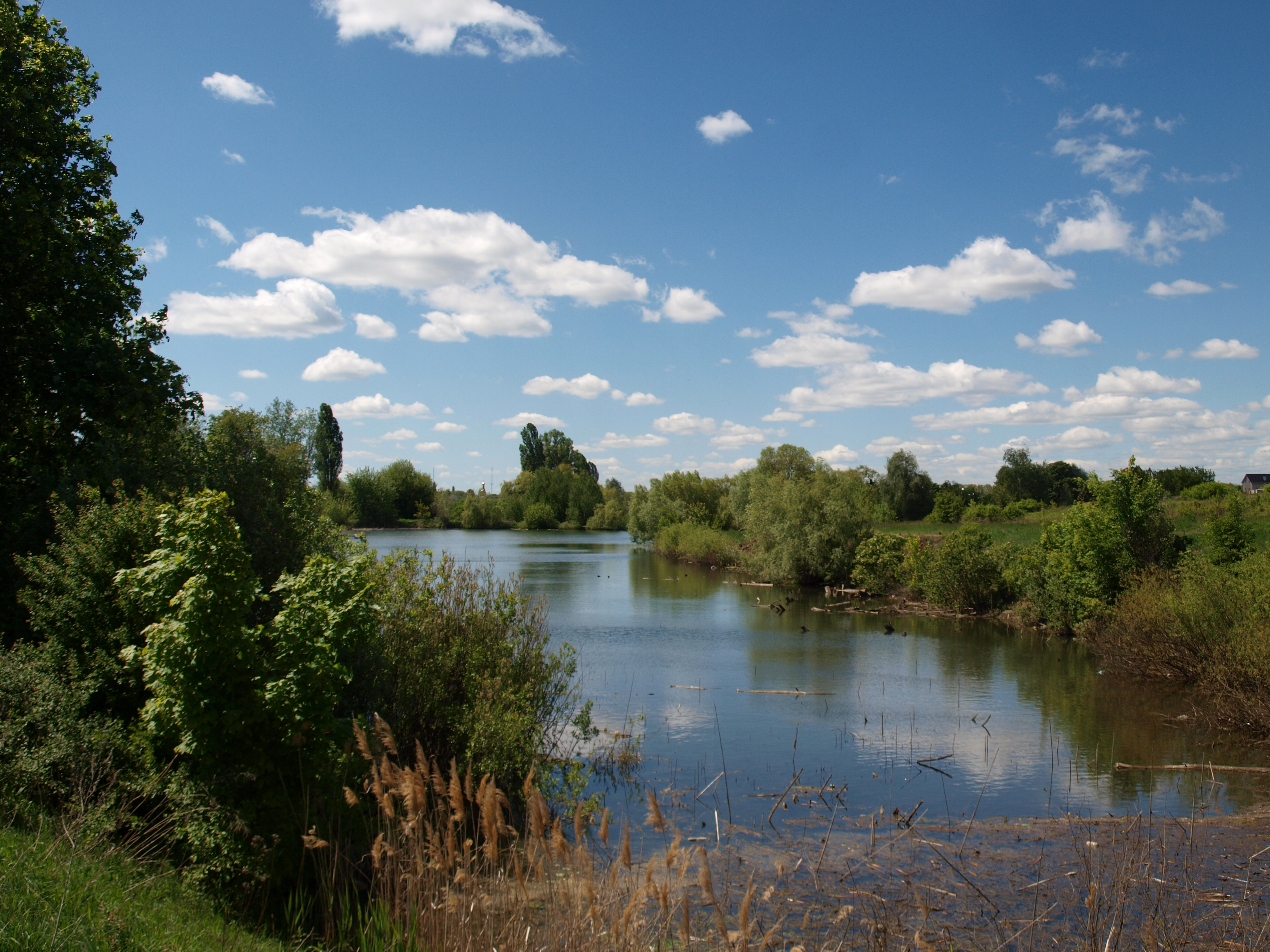 Pond in Horbanivka